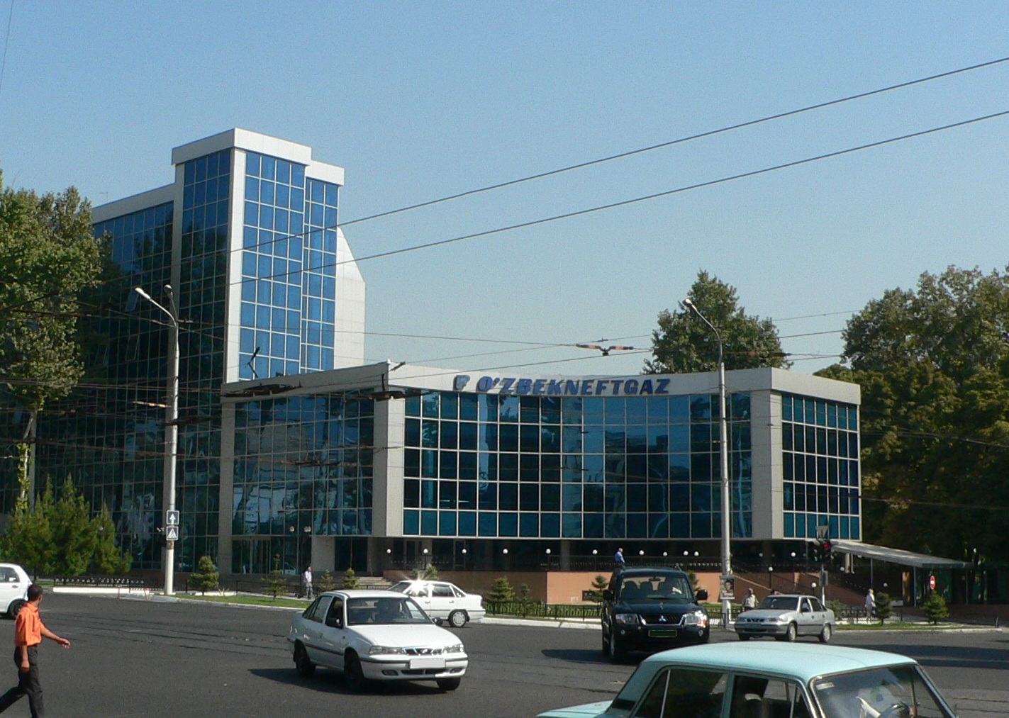 Building of O'Zbekneftgaz in Tashkent, Uzbekistan